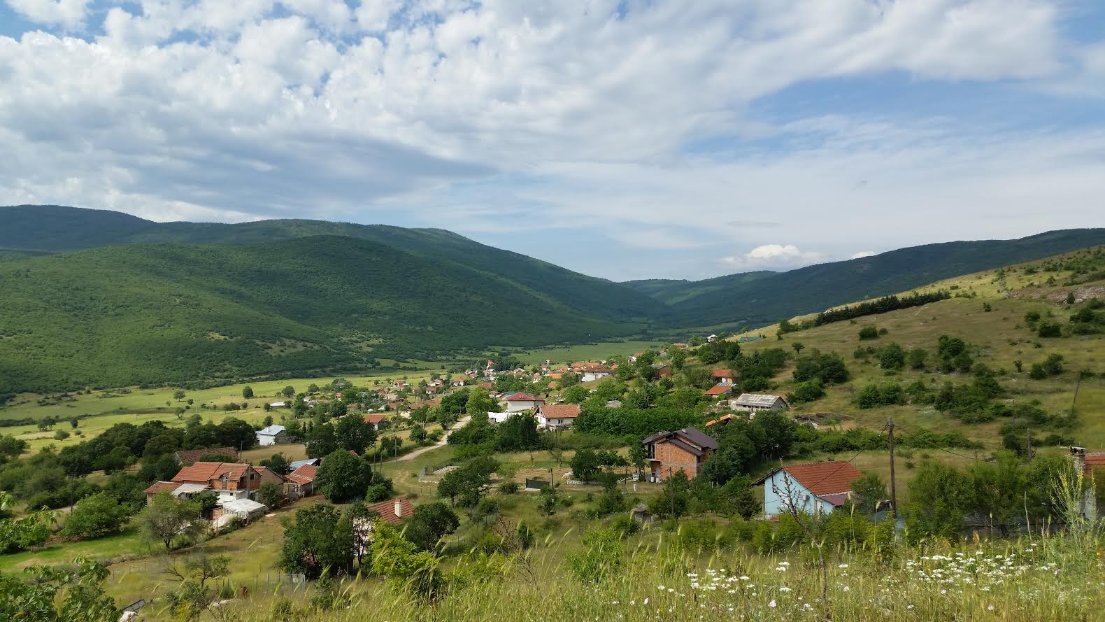 Nova Breznica